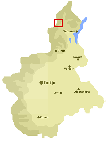 Position of the valley Valle Antrona